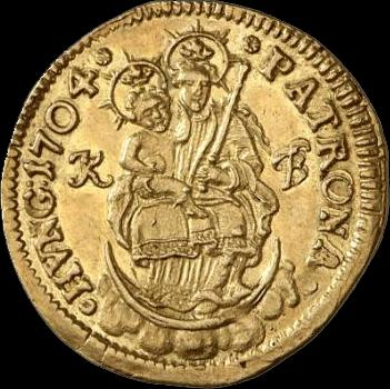 1 ducat coin, Hungary, Francis II Rákóczi (1704, KB) reverse [Huszár: 1521; Unger: 1124]